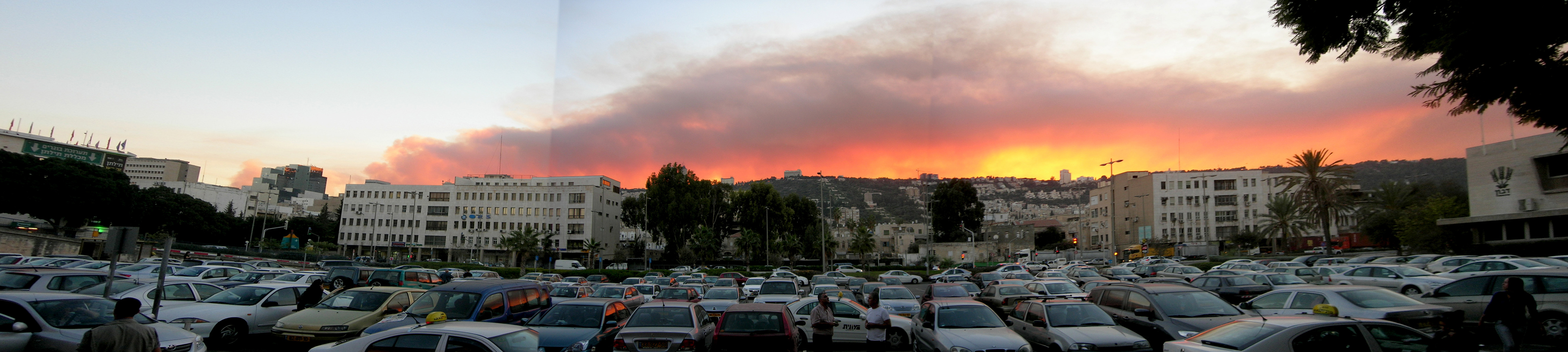 A cloud of smoke over Haifa, Israel, lit by the descending afternnon sun, during the great fire on Mount Carmel, December 2 2010. Taken from "Haifa Merkaz Hashmona" train station.